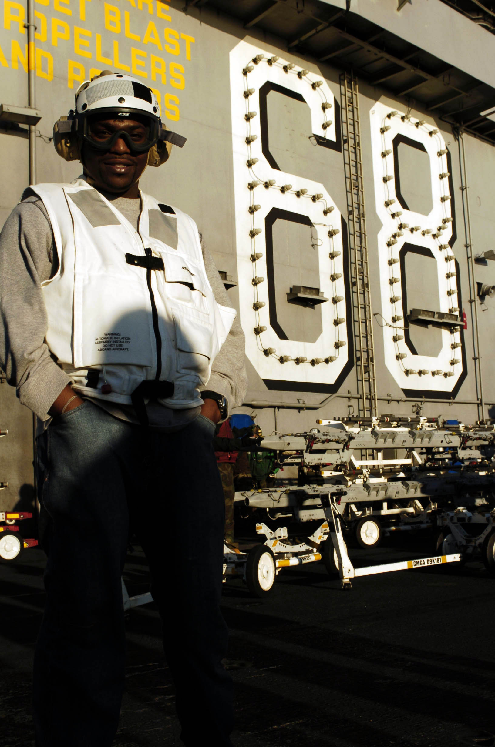 Pacific Ocean (Dec. 11, 2004) - Television and movie actor Mekhi Phifer poses for a photo on the flight deck aboard the aircraft carrier USS Nimitz (CVN 68) during a recent tour of the ship. Nimitz and embarked Carrier Air Wing Eleven (CVW-11) are currently conducting Composite Training Unit Exercise off the coast of southern California. U.S. Navy photo by Photographer's Mate 2nd Class Tiffini M. Jones (RELEASED)